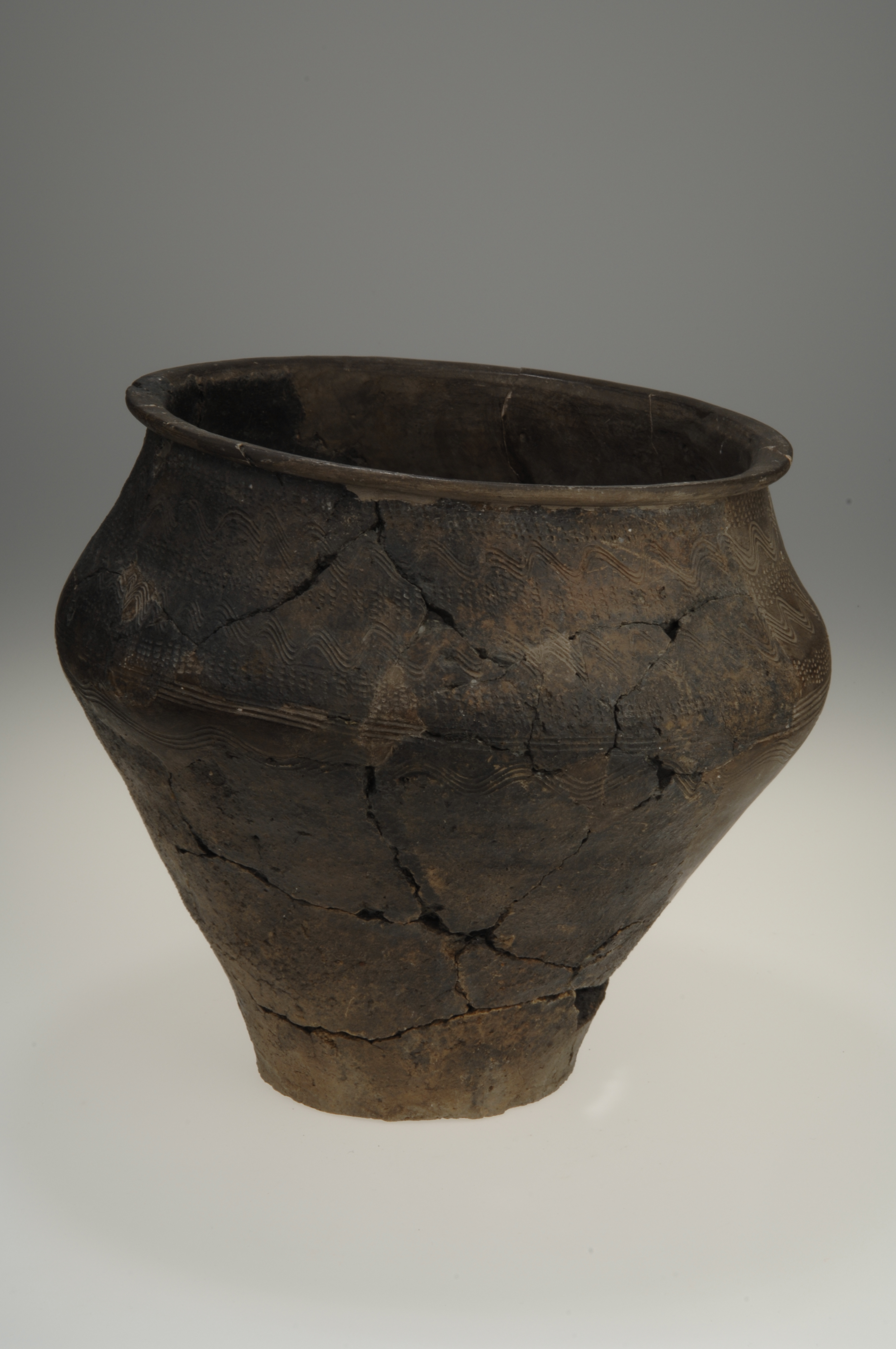 Vessel. Ceramic. Menkendorf ware of West Slavic provenance. Traces of a potter’s wheel in the bottom. Grave find, Björkö, Adelsö, Uppland, Sweden. SHM 34000:Bj 598 See also